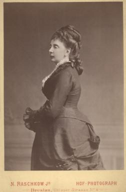 Princess Louise of Prussia (1829-1901), Landgravine of Hesse-Philippsthal-Barchfeld and consort of Alexis, Landgrave of Hesse-Philippsthal-Barchfeld